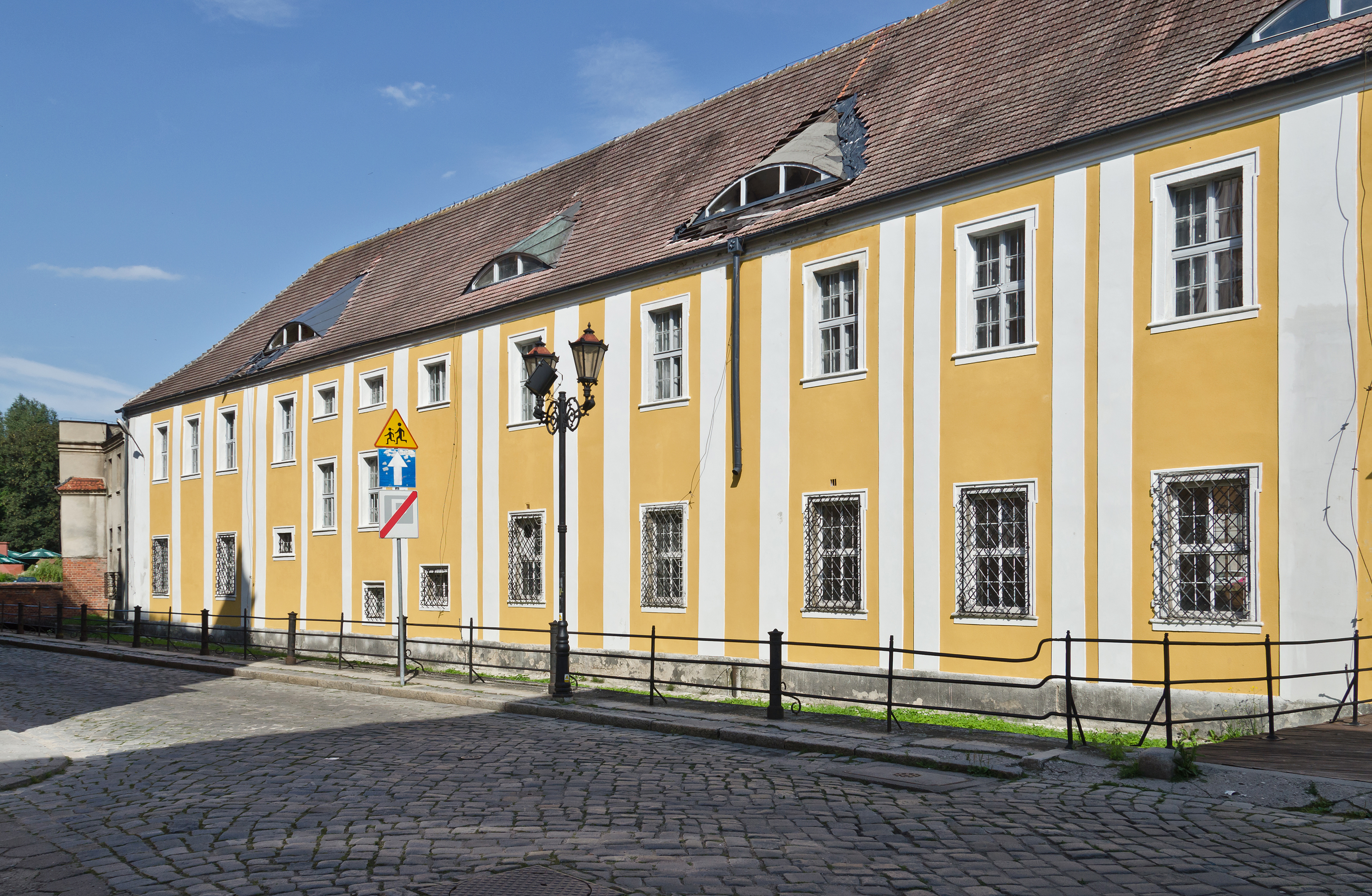 Bishops manor in Nysa